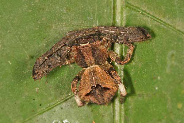 Crab Spider Angaeus sp. from Coorg.